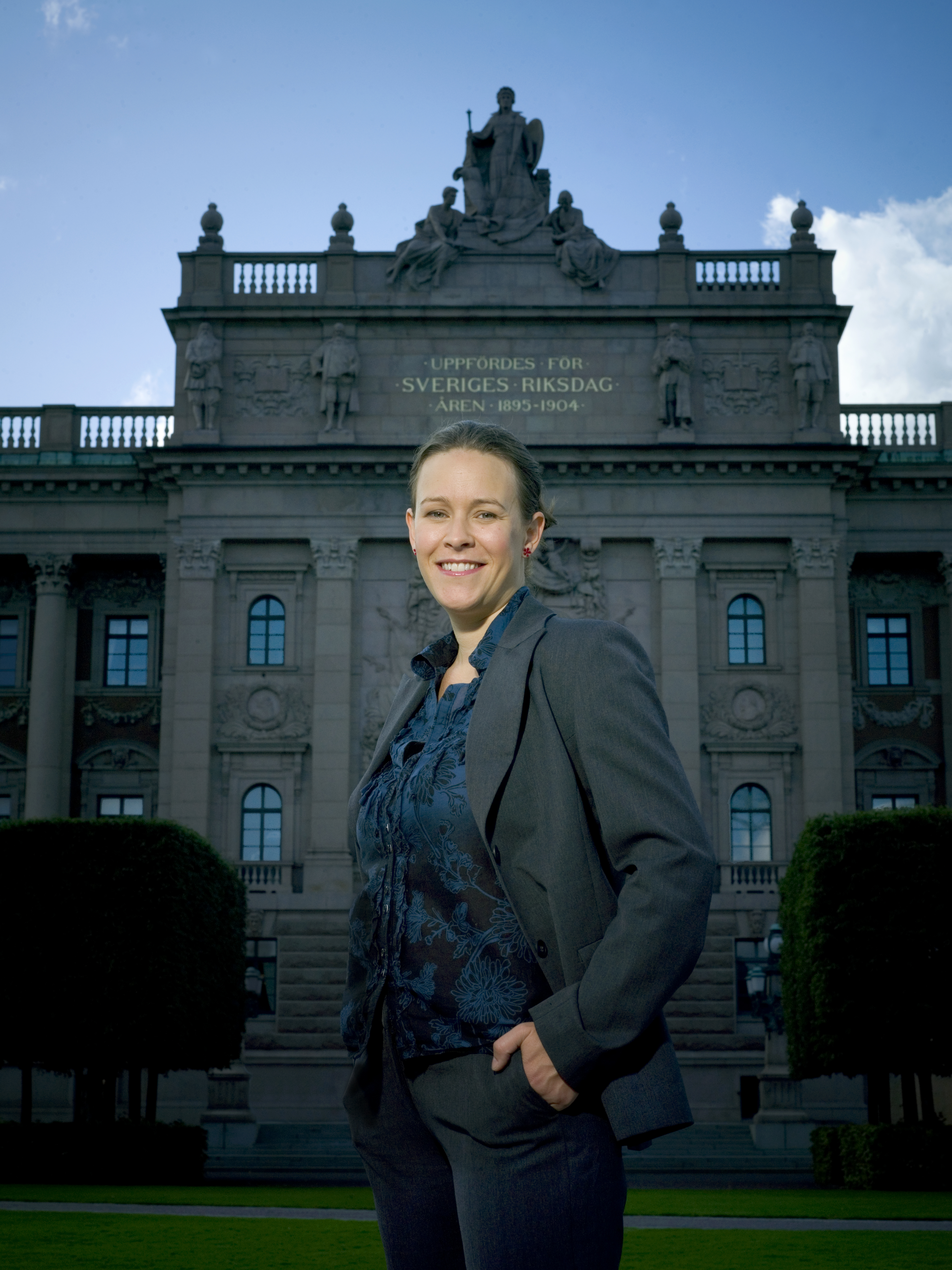 The Swedish Greens spokesperson Maria Wetterstrand, standing in front of the Swedish parliament